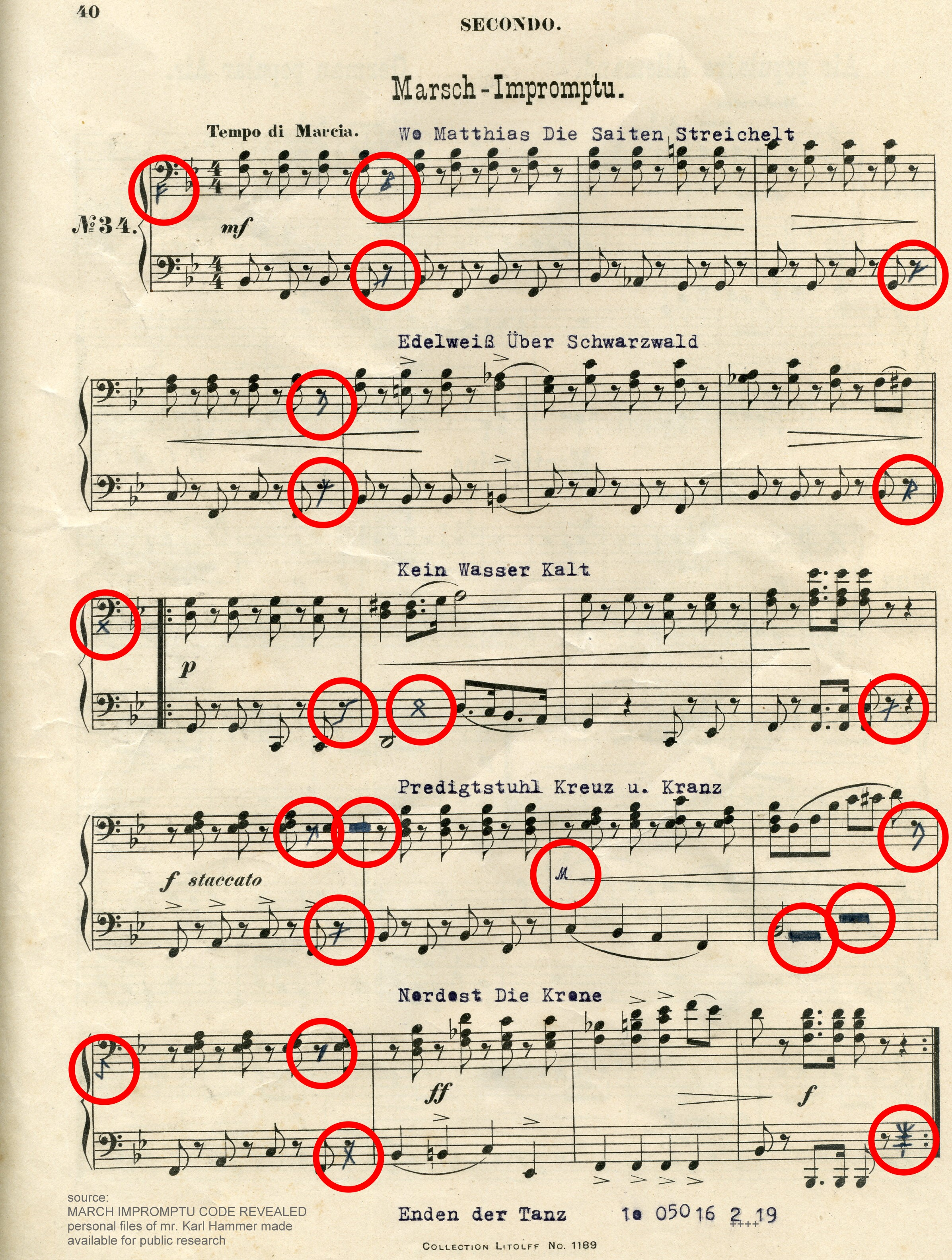 March Impromptu Code, the document alledgedly containing a code message from Martin Bormann to the leaders of the Nazi terror group Werwolven. This document was made available to the public for research purposes. The bottom of the image indicates the original score was from Collection Litolff No. 1189; this was published by Henry Litolff's verlag in Braunschweig, Germany in 1881 and credited to Josef Löw.[1][2] Löw's "Marsch Impromptu" may also have been published as part of Teacher and pupil : a practical course of four-hand piano playing by Schirmer in New York in 1893. News reports[3] however credit an 1876 work of the same name published in the U.S. by Gottlieb Federlein (1835 - 1922); however the Library of Congress deposit sample[4] does not seem to match. Gottfried Federlein (1883 - 1952) is sometimes credited, but appears to be Gottlieb's son and not related to the work in question. More discussion here.